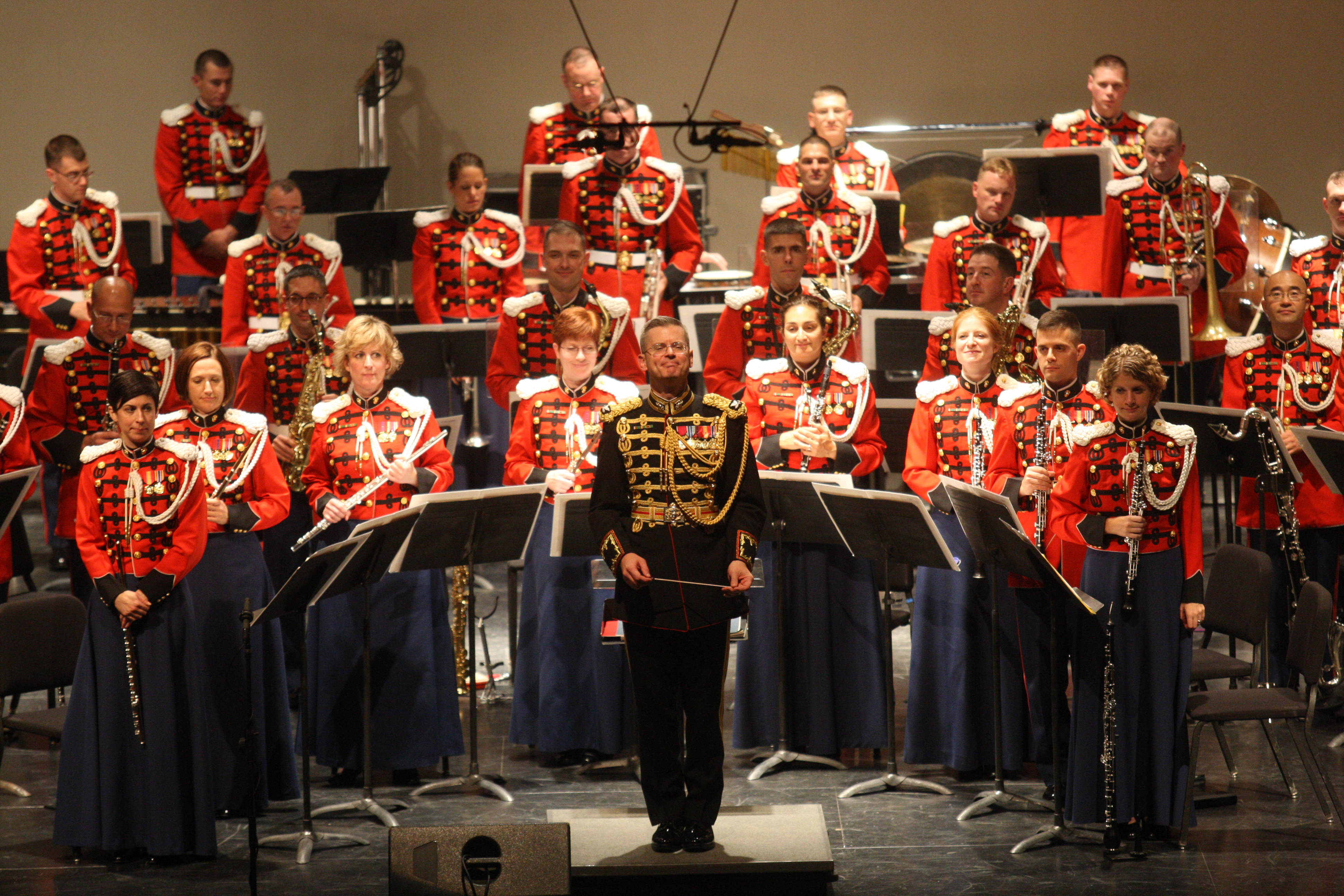 Col. Michael Colburn, director of the United States Marine Band, "The President's Own," stands with the band after completing Rachmaninoff's "Symphonic Dances" during the band's performance at the Eastern Carolina University in Greenville, N.C., Oct. 2.